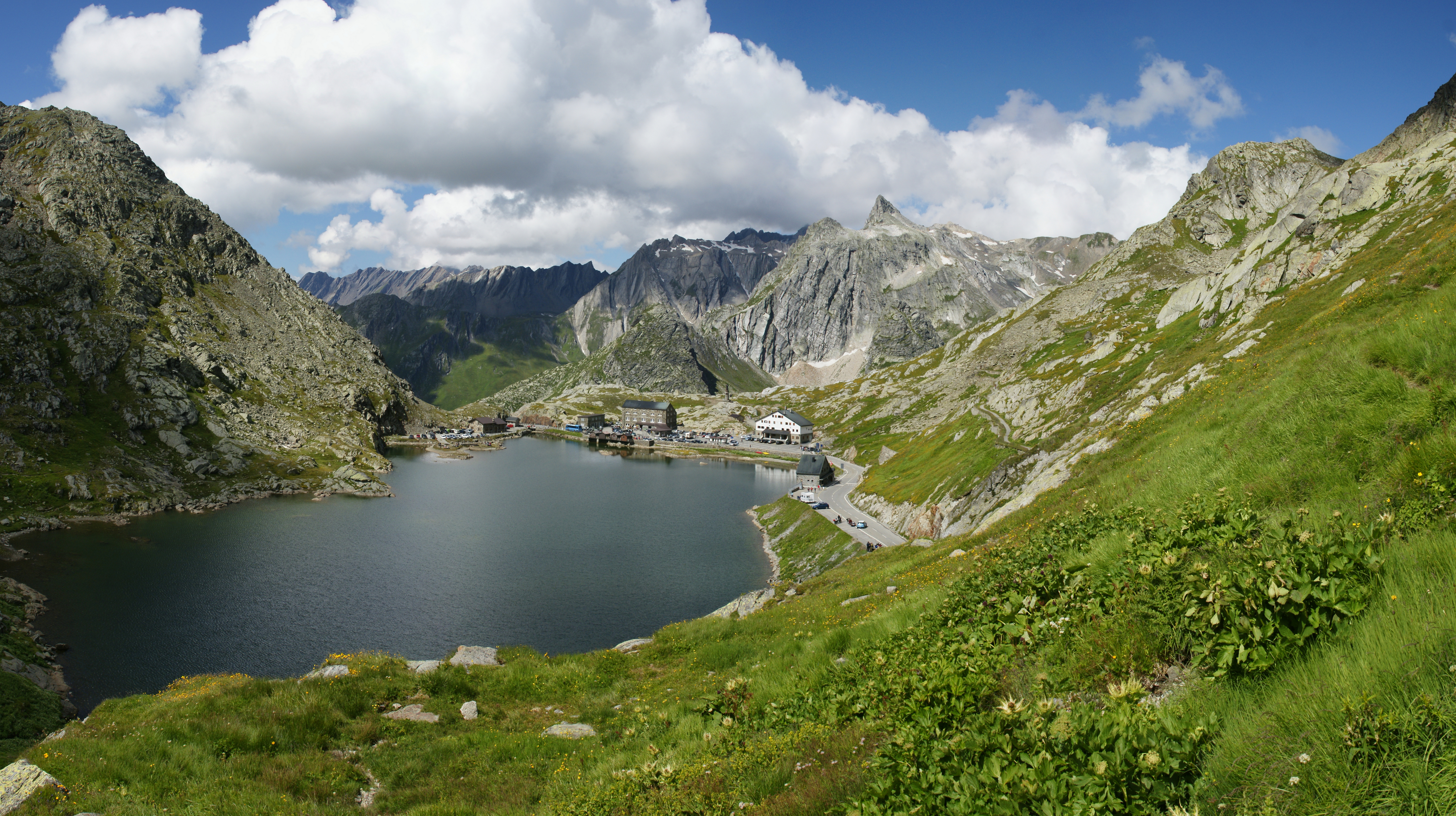 Great St. Bernard Pass at the Italy - Switzerland border.